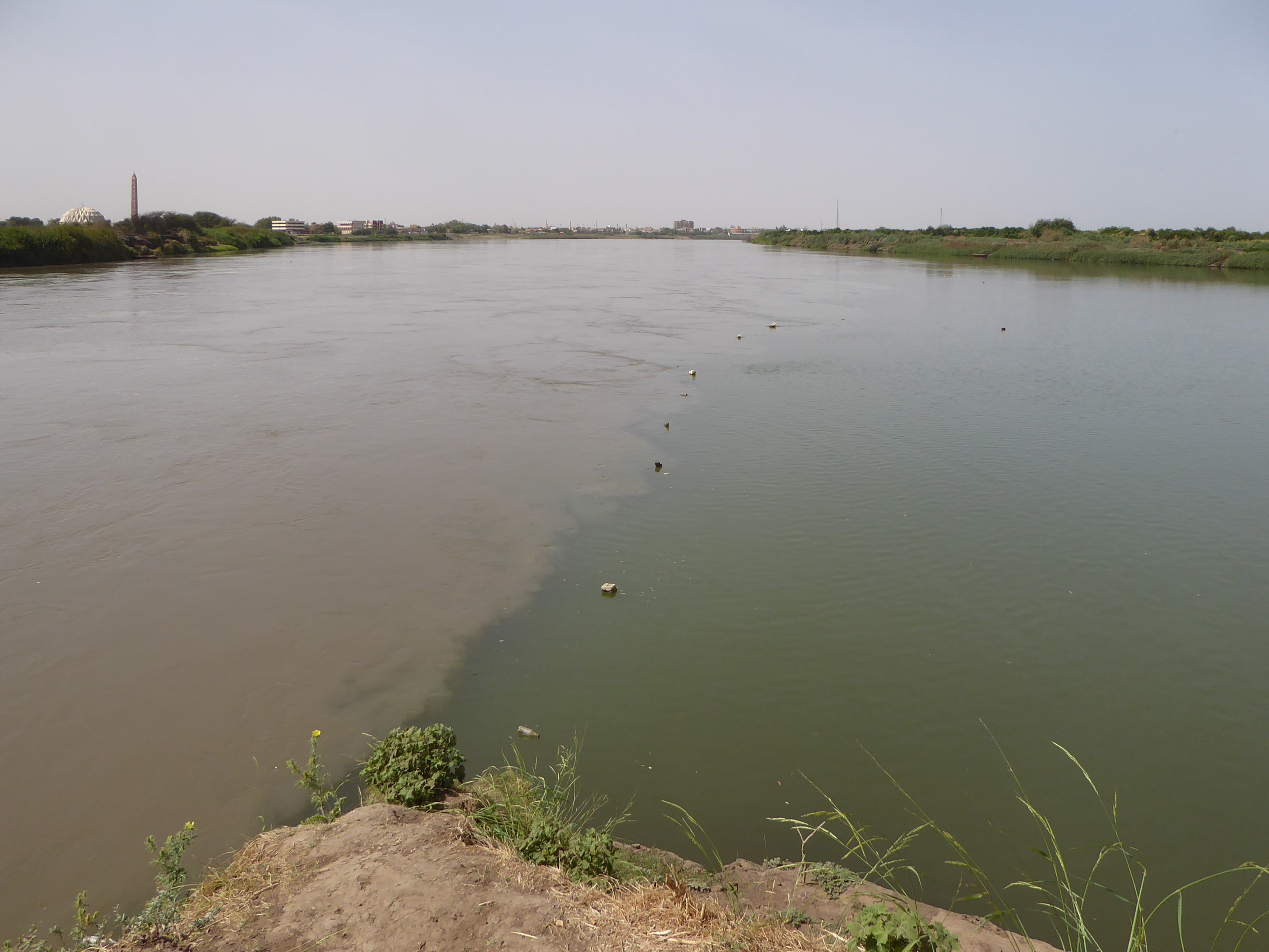 Confluence of white and blue Nile (1)